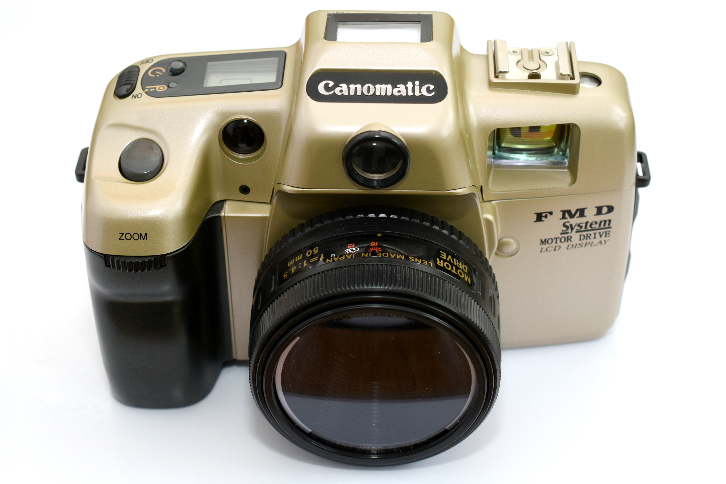 Ouyama "Canomatic", camera with viewfinder